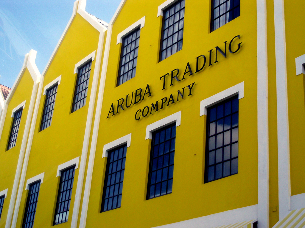 Aruba Trading Company